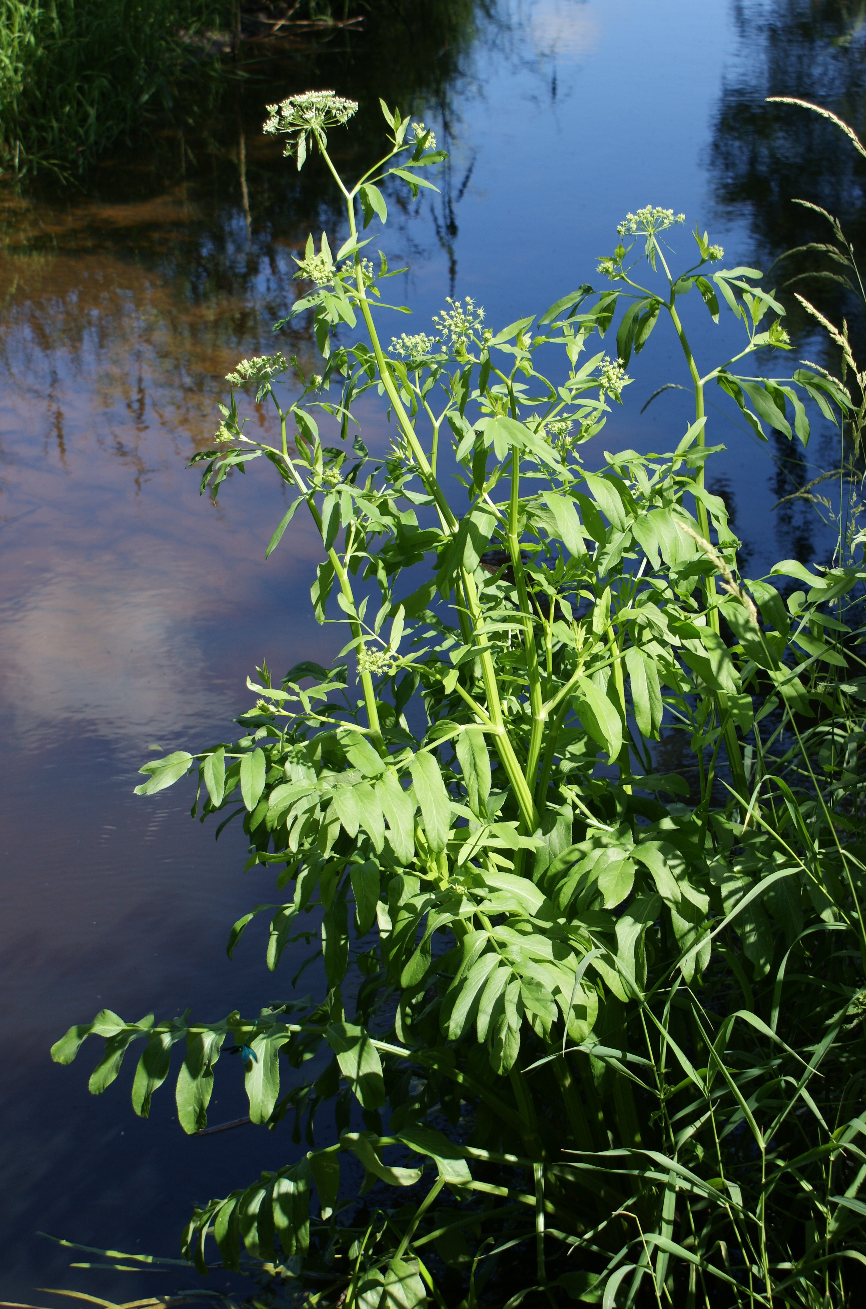 Sium latifolium on the river Wolczenica bank (NW Poland)